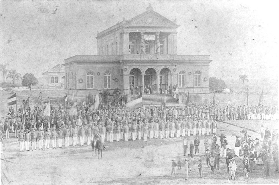 Inauguration of the town hall of the city of Santa Cruz do Sul, dated 1892